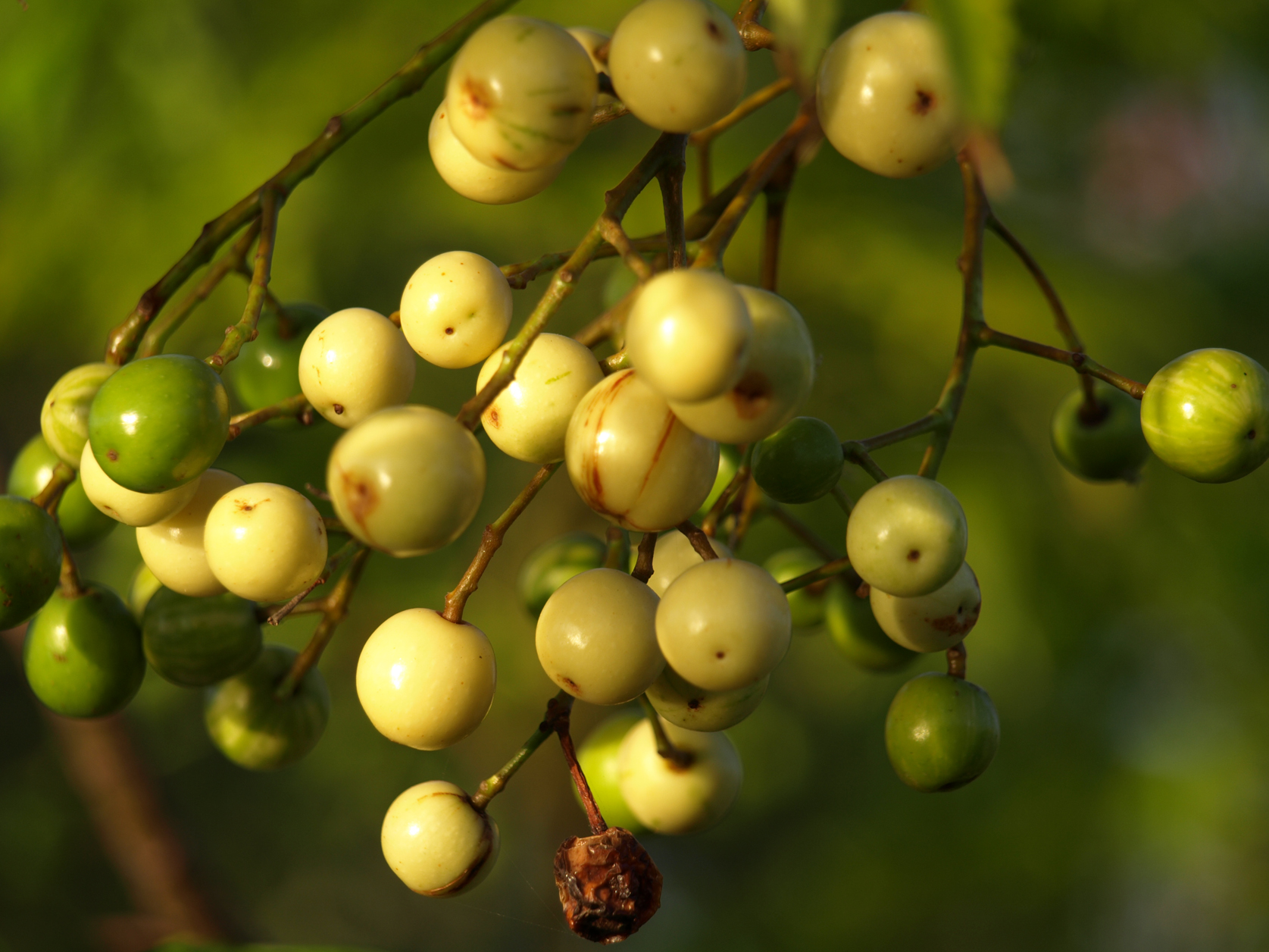 Melia azadarach 'Floribunda' South Miami, Florida, USA. This cultivar is a dwarf that comes true from seed. Unfortunately it is potentially very invasive as the seeds germinate all too easily.